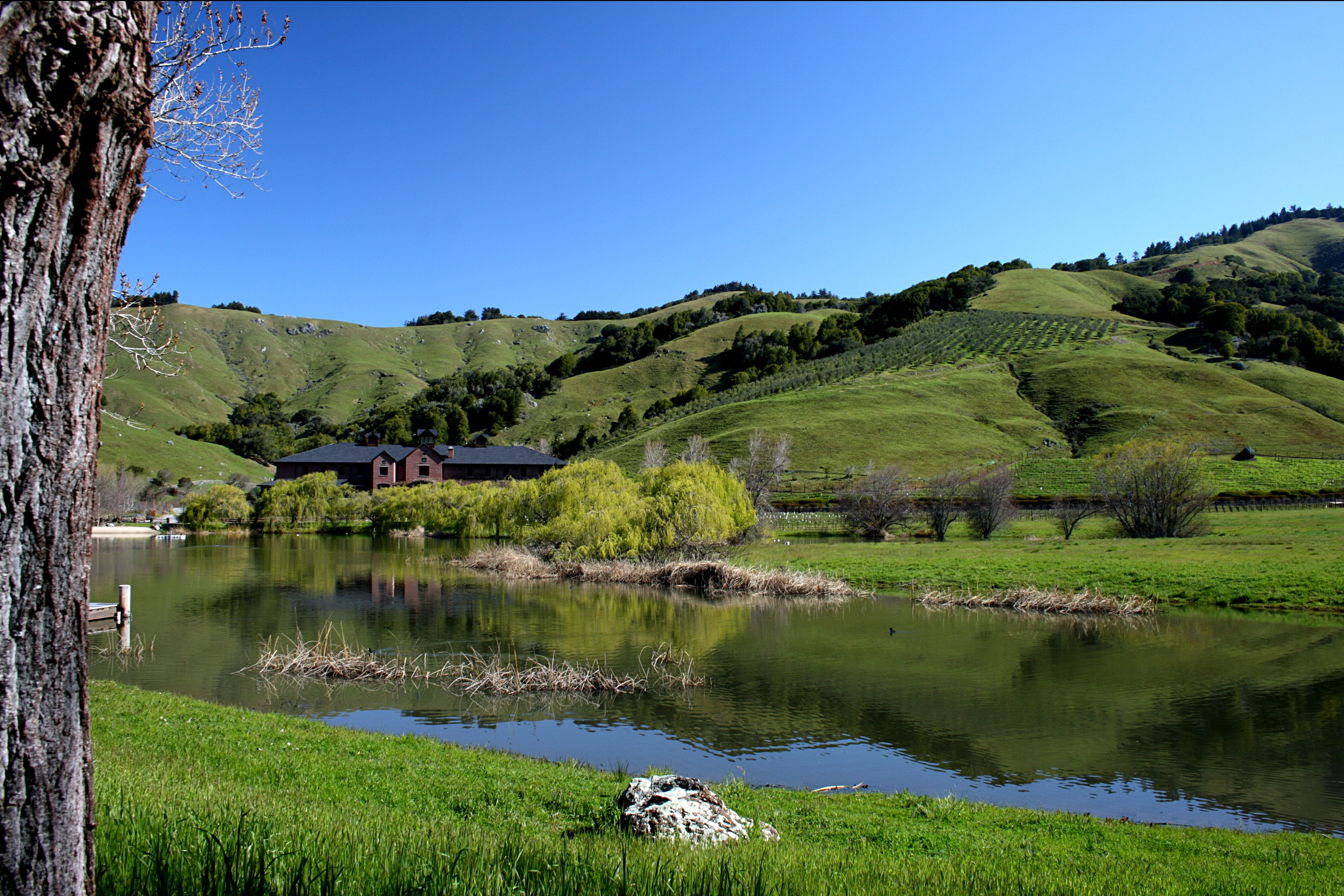 Lake Ewok with the Tech Building in the background where Skywalker Sound is housed.